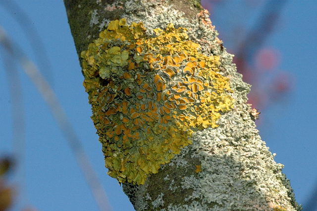 Picture taken in Commanster, Belgian High Ardennes . Species: Xanthoria parietina